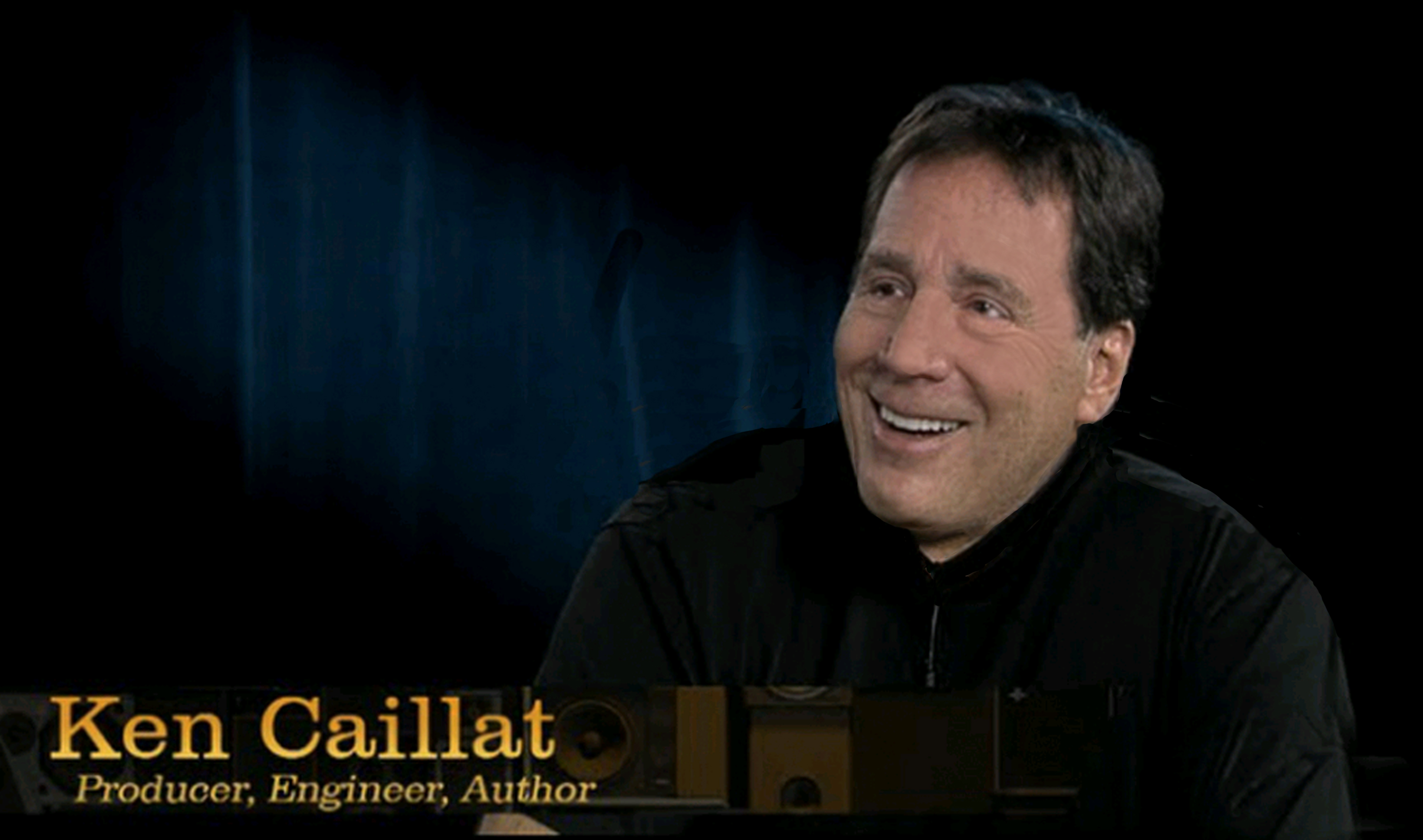 Ken Caillat live interview on Dave Pensado's Place